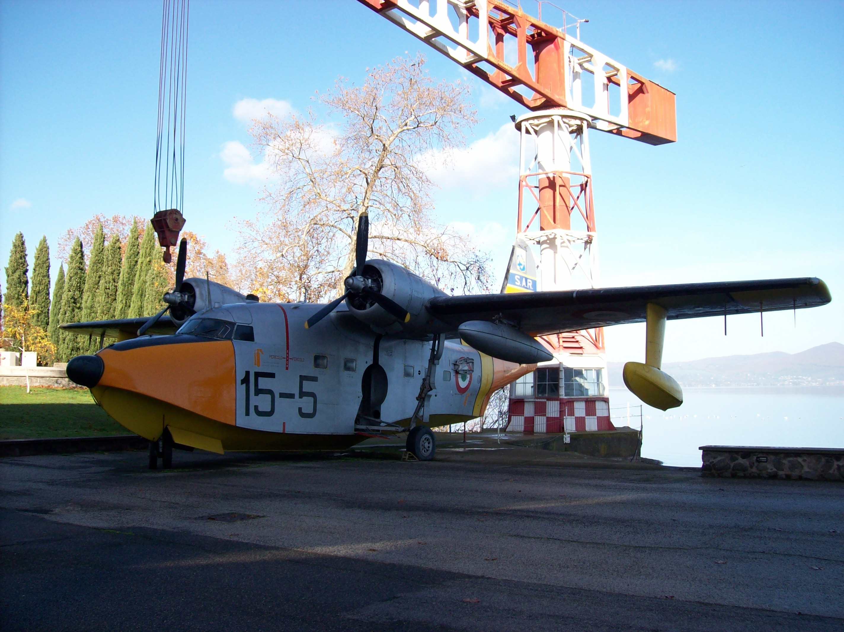 US-built amphibious flying boat Grumman HU-16 Albatross operated by Italian Air Force until 1979